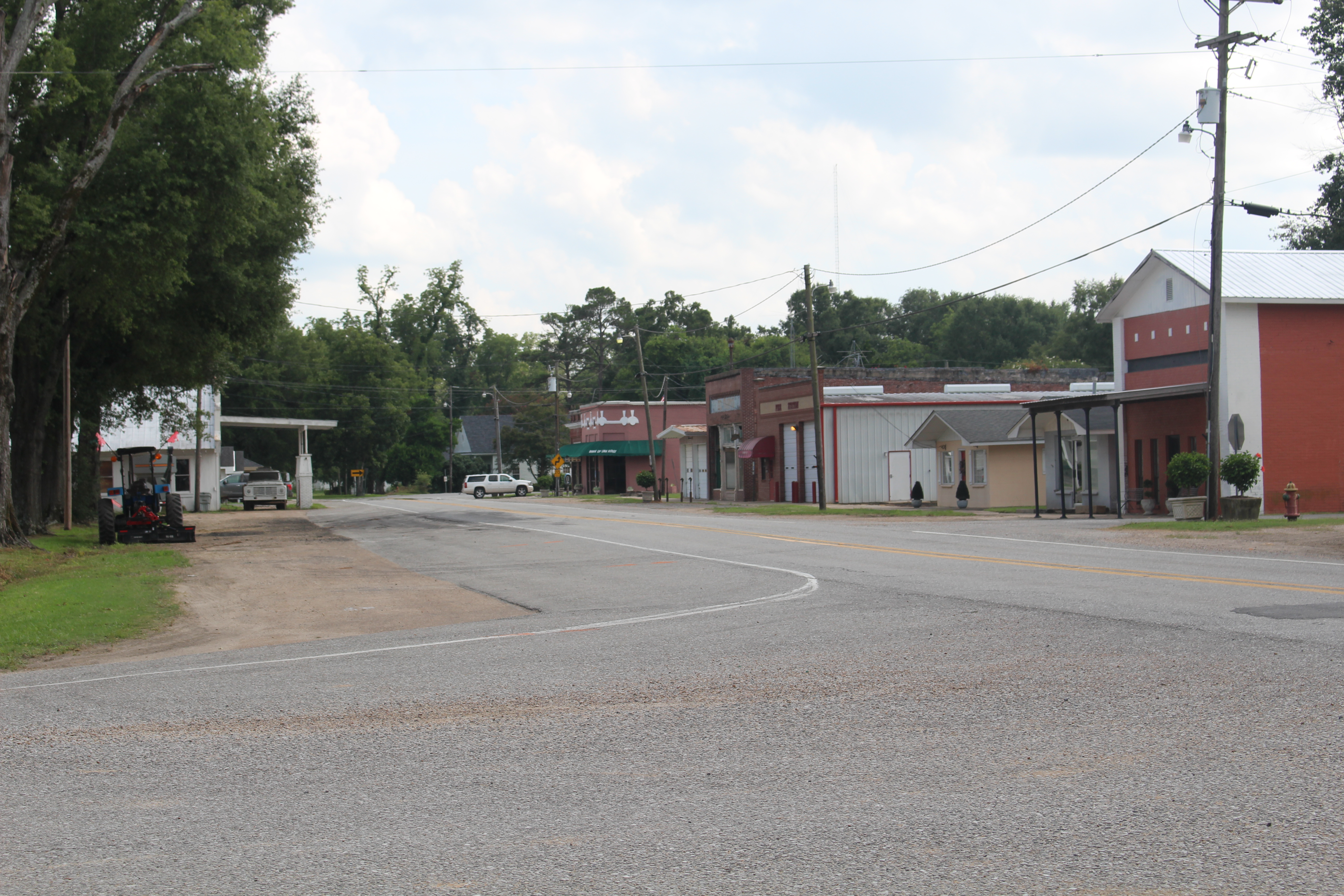 This is a picture of Main Street Oak Ridge Louisiana as of 7/19/2019